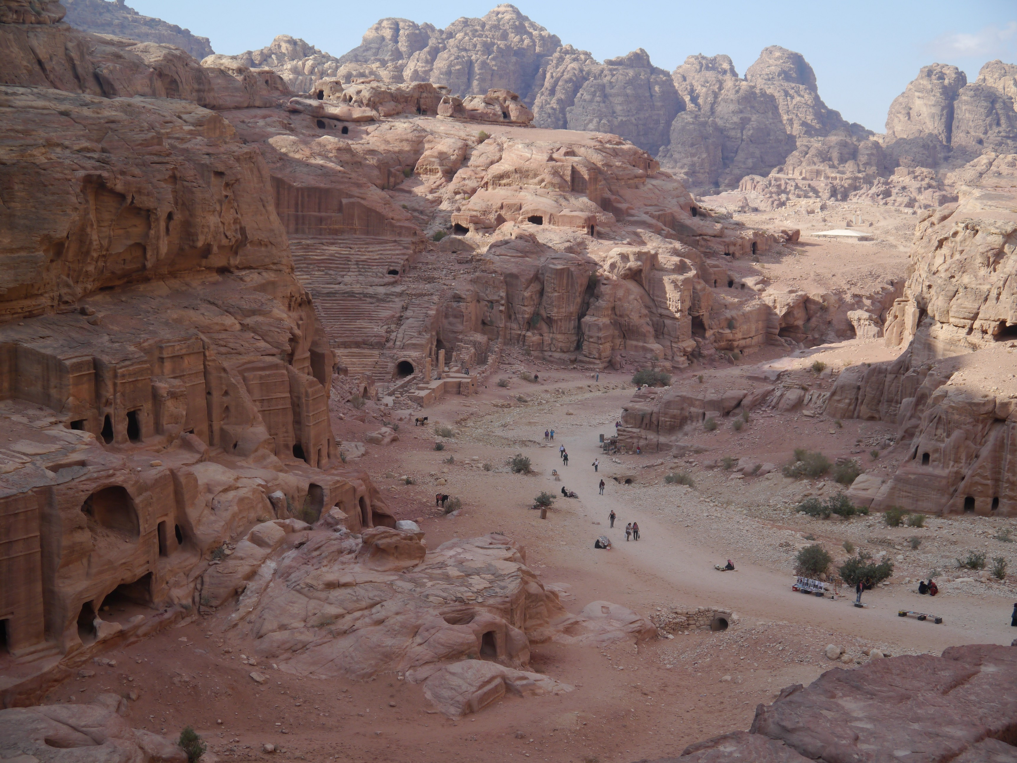 View of Petra, Southern Jordan